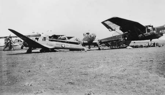 Wrecked French Potez 630 and Bloch MB.200 aircraft at Baalbek, Syria, in 1941.